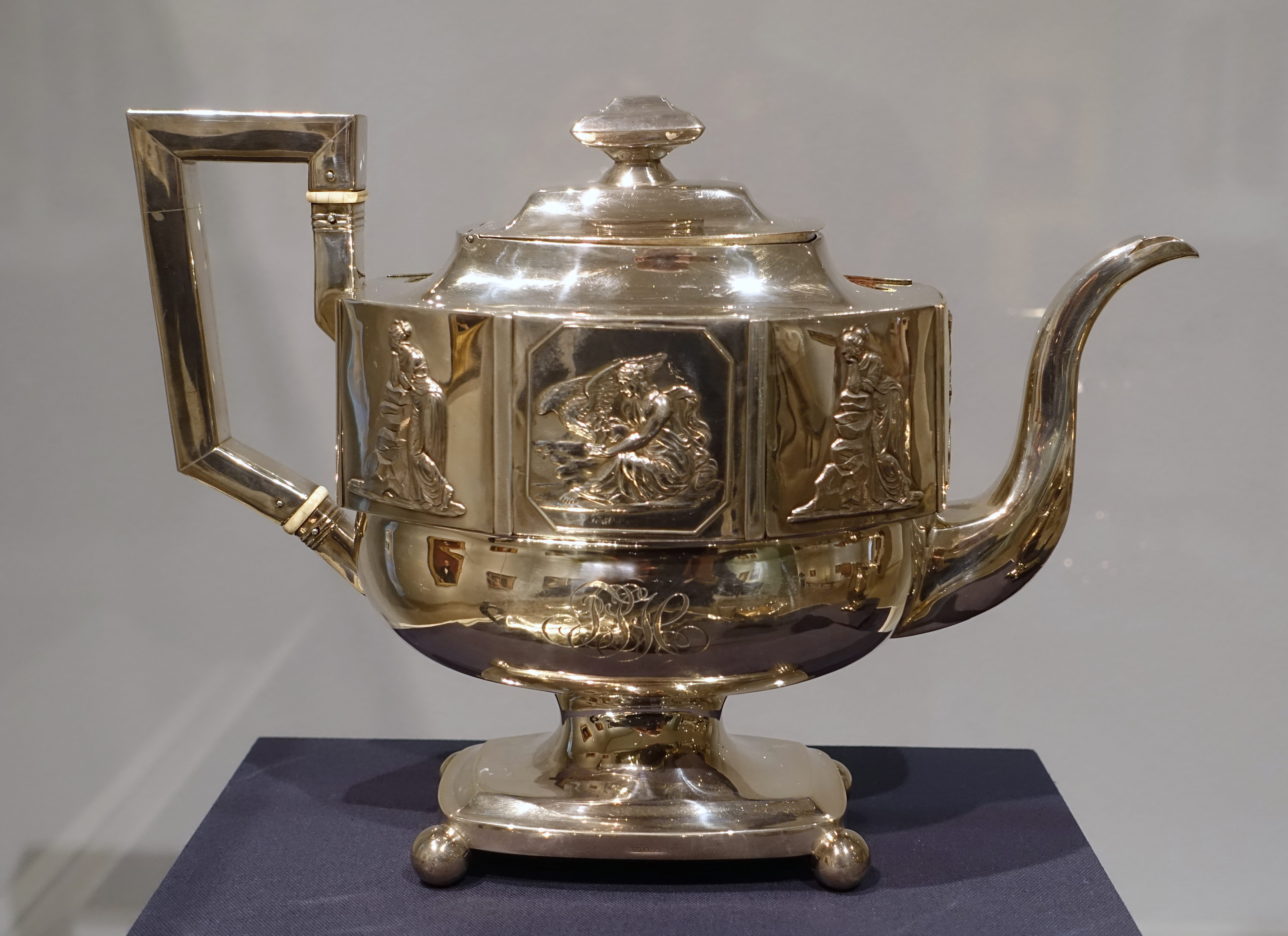 Exhibit in the Dallas Museum of Art, Dallas, Texas, USA.